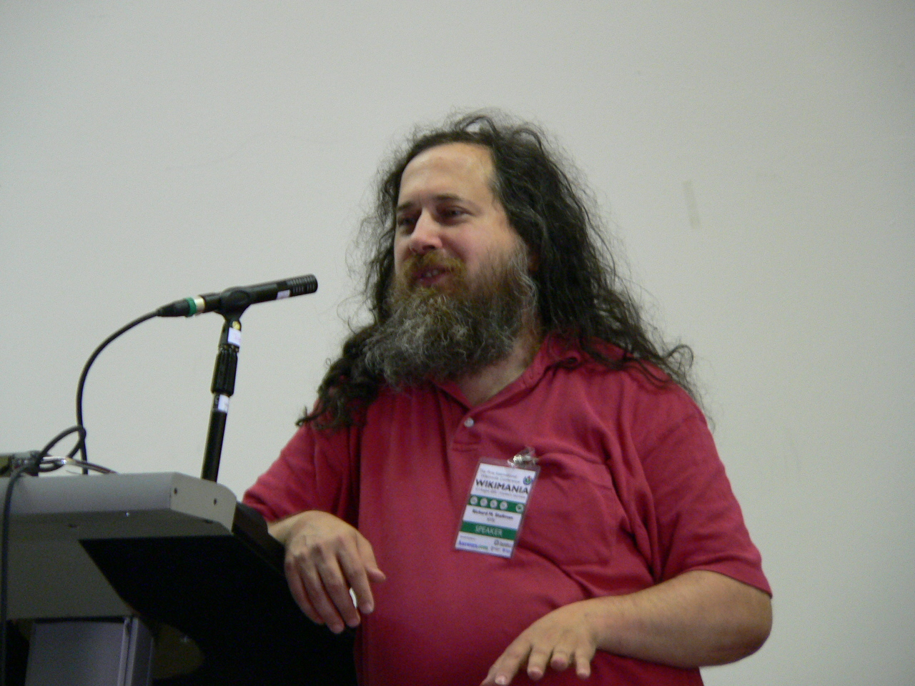 Richard Stallman, the founder of the Free Software movement, speaking in the Großer Saal, Haus der Jugend, Frankfurt am Main, Germany at Wikimania 2005.